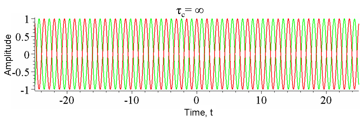 A single frequency wave and a delayed copy of itself. I created this.